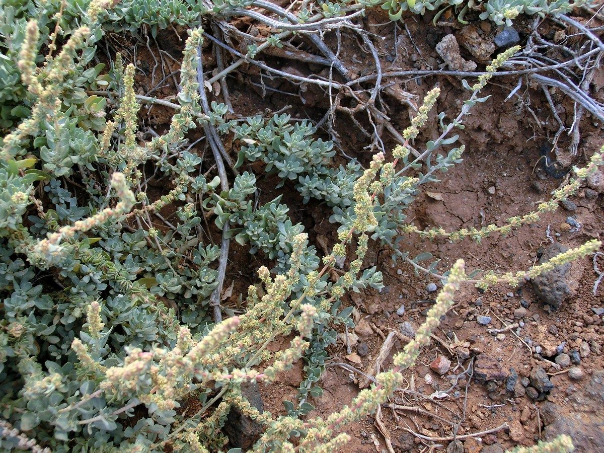 Atriplex glauca subsp. ifniensis. NW Tenerife, Teno Bajo near Punta de Teno, open coastal succulents shrubland, ca. 20 m above sea level.